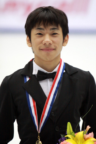 Nobunari Oda at the 2009 Cup of China.